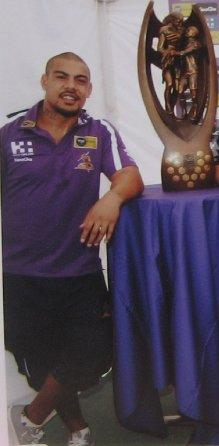 Sika Manu with fans (edited out)